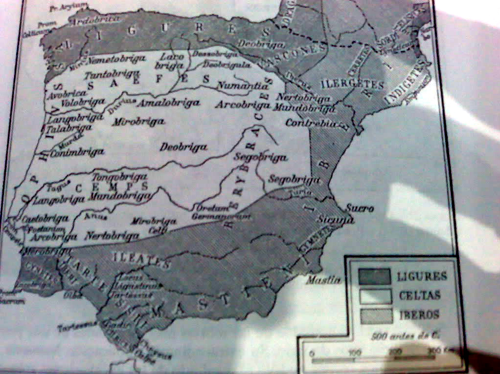 Map of the distribution of prerroman tribes in the Iberian Peninsula.